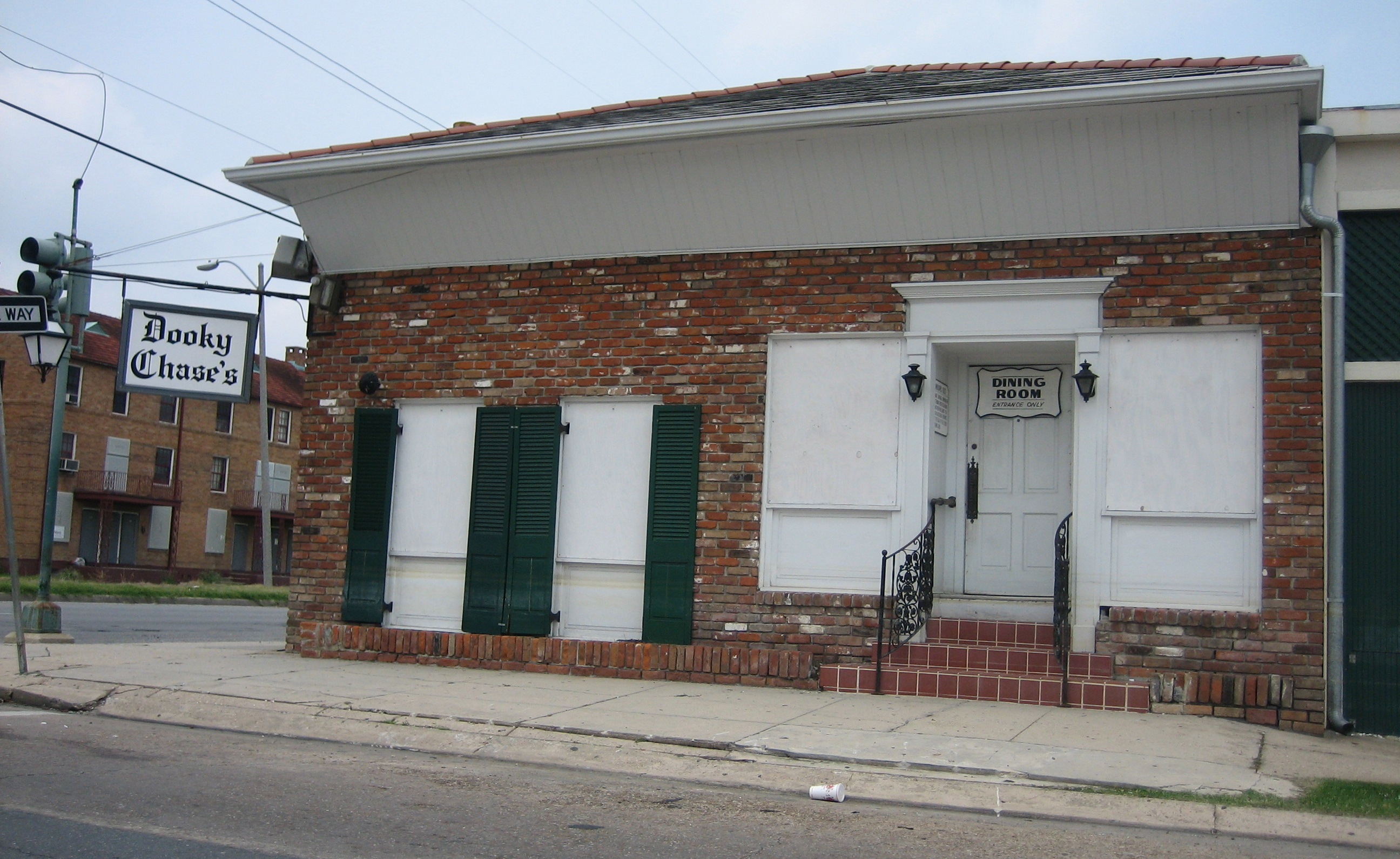 New Orleans after Hurricane Katrina: Famous "Dooky Chase's Restaurant" was flood damaged. Section of the Lafitte Projects across Orleans Avenue visible at left. Photo by Infrogmation